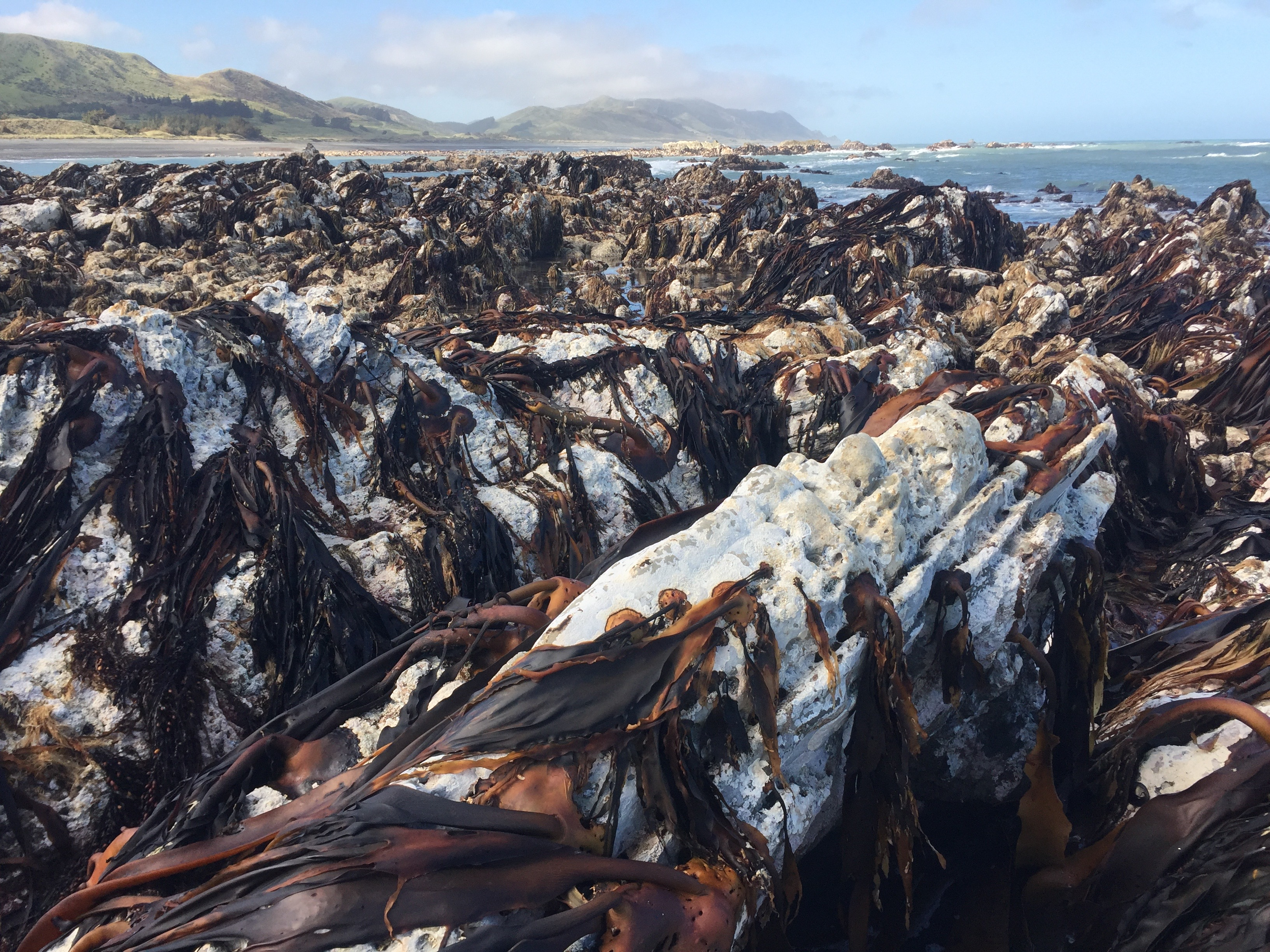 Durvillaea southern bull-kelp exposed after the 2016 Kaikōura earthquake